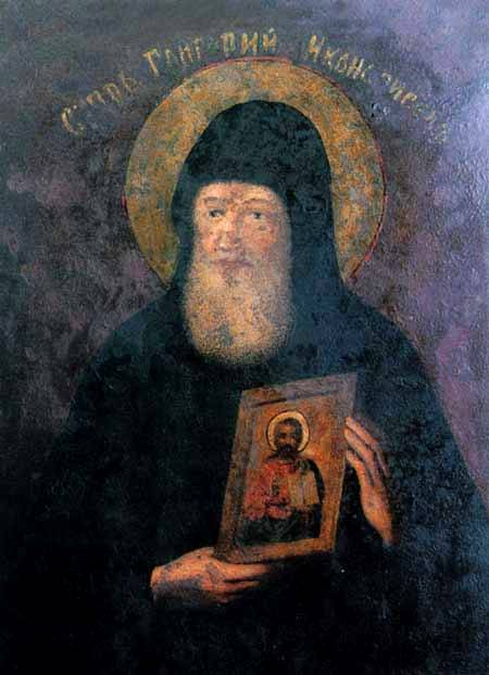 Saint Gregory the Iconpainter of Kyiv Caves Monastery, Ukraine. Christian Orthodox saint. 12-th century.